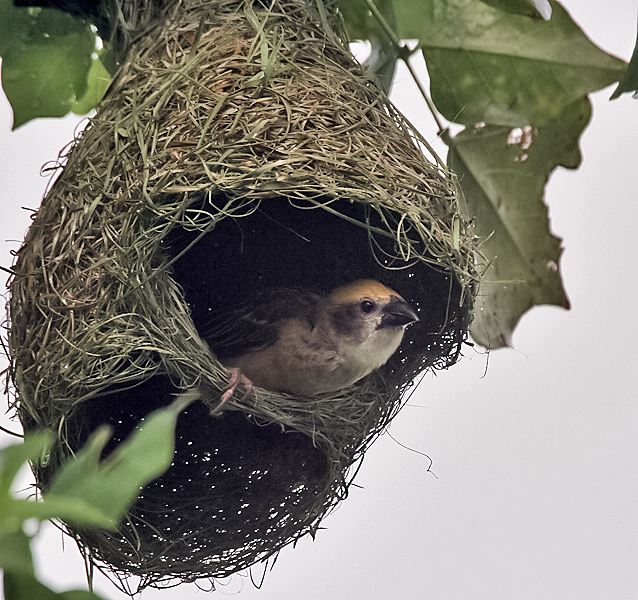 Baya Weaver (Ploceus philippinus) in Kolkata, West Bengal, India.